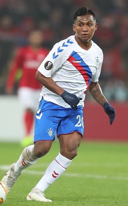 Alfredo Morelos with Rangers in an Europa League game against Spartak Moscow.